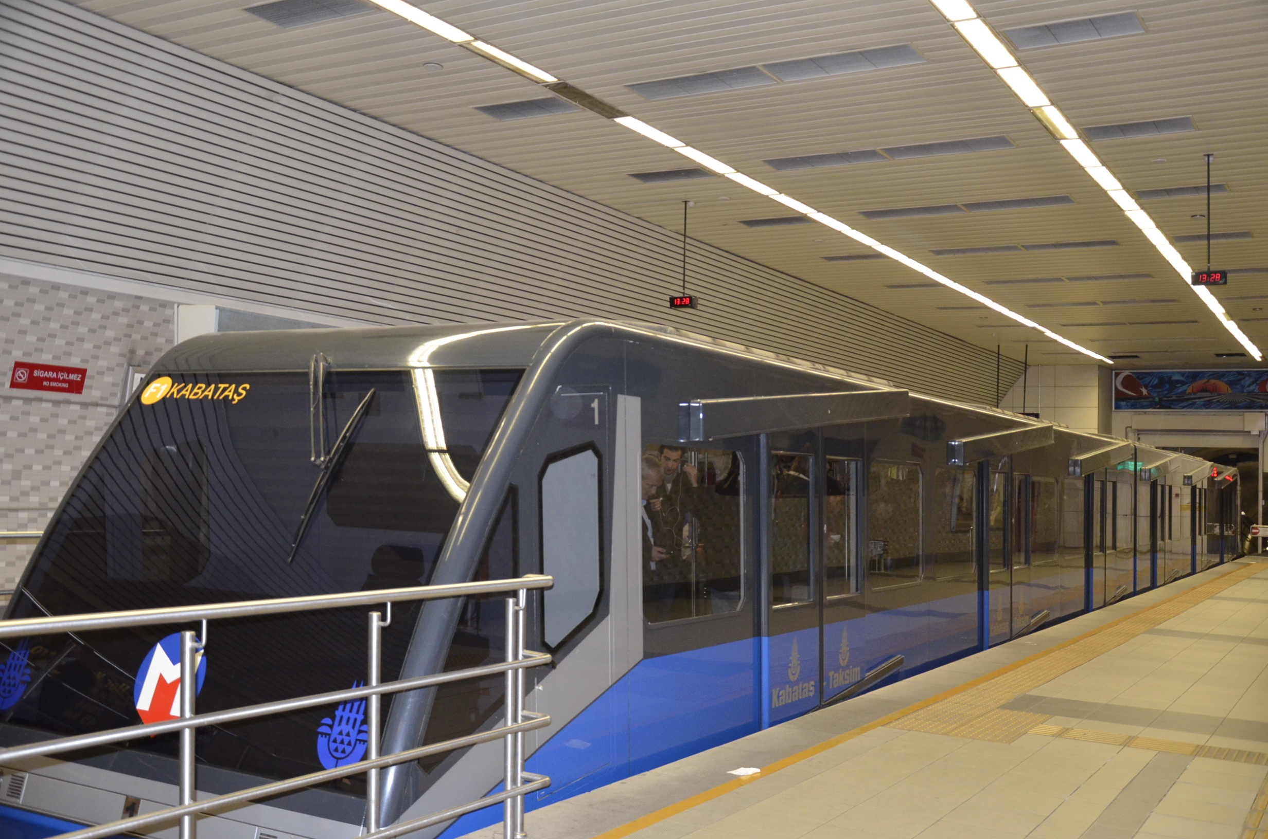 Funicular Taksim-Kabataş vehicle at Taksim terminal